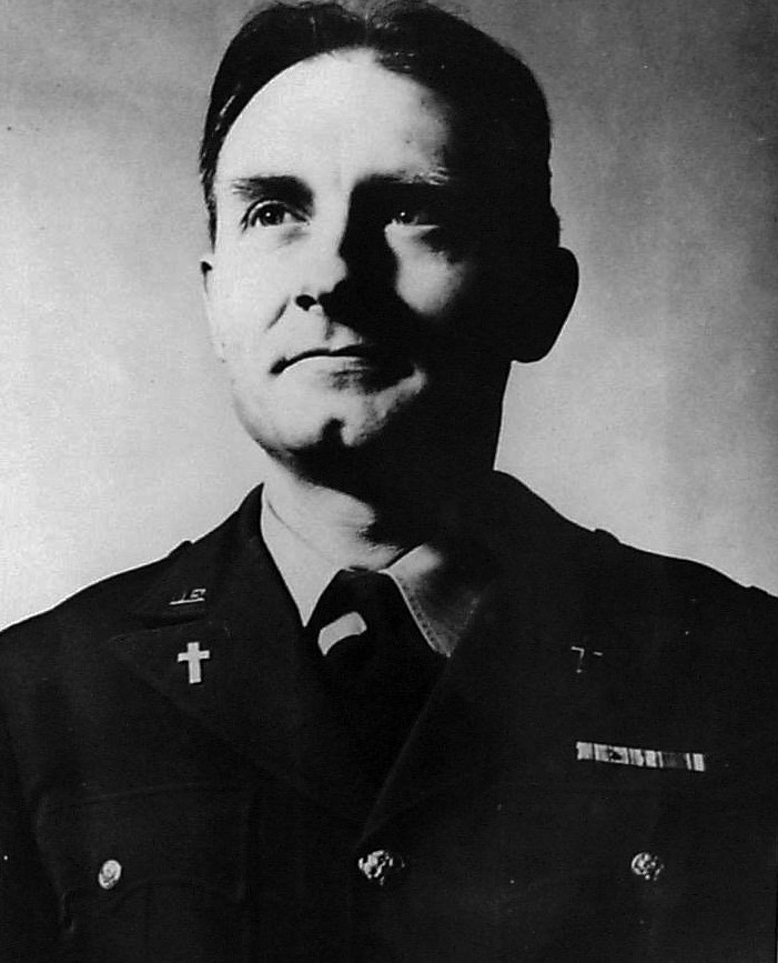 Roman Catholic Chaplain Emil J. Kapaun, United States Army recipient of the Medal of Honor